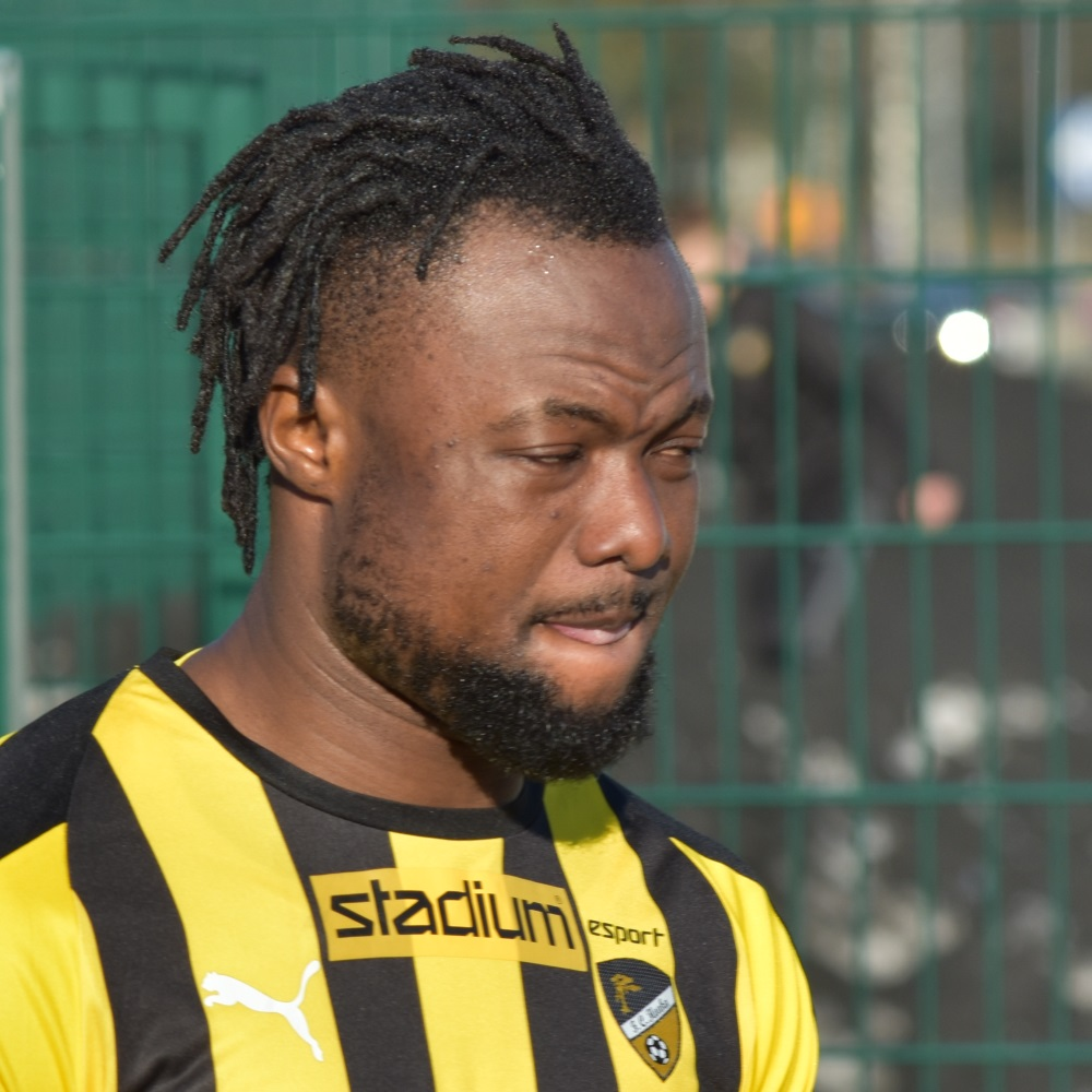 Association football player Gideon Baah (FC Honka)